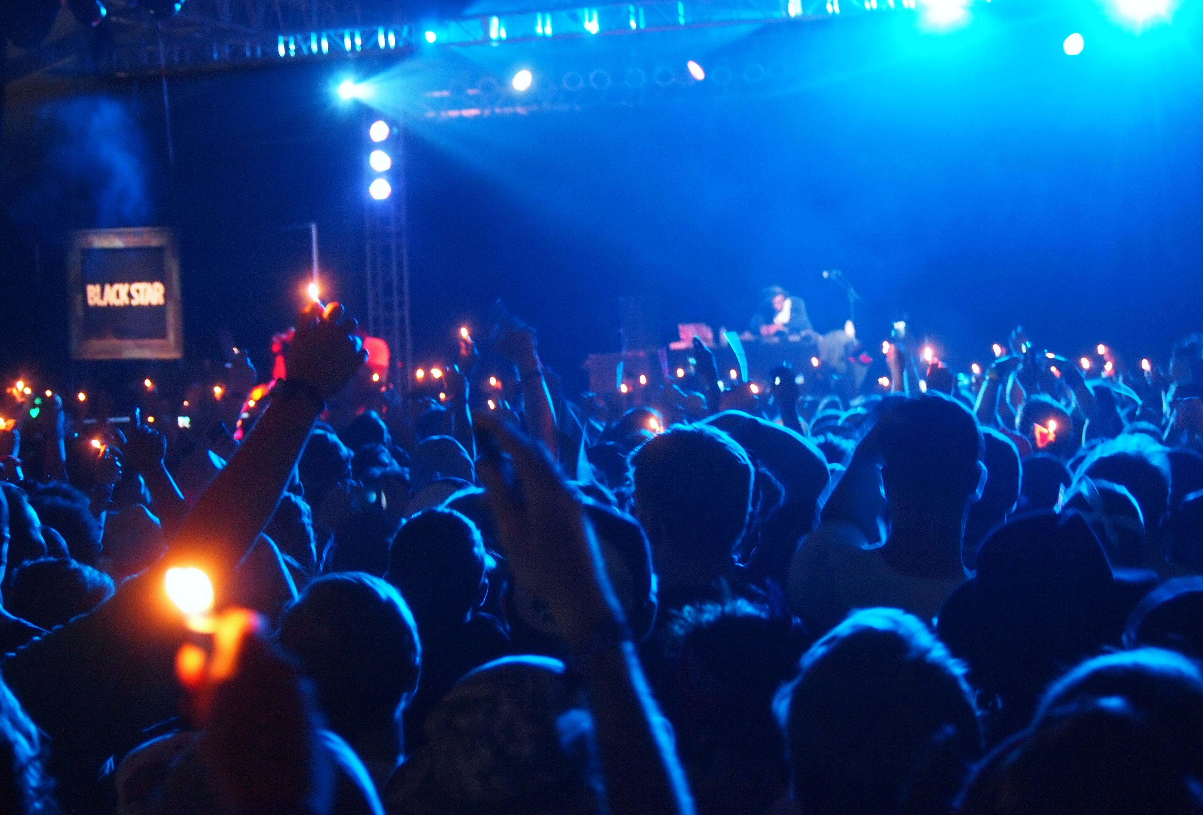 Mos Def (aka Yasiin Bey) and Talib Kweli revive their Black Star collaboration Friday night at Bonnaroo.